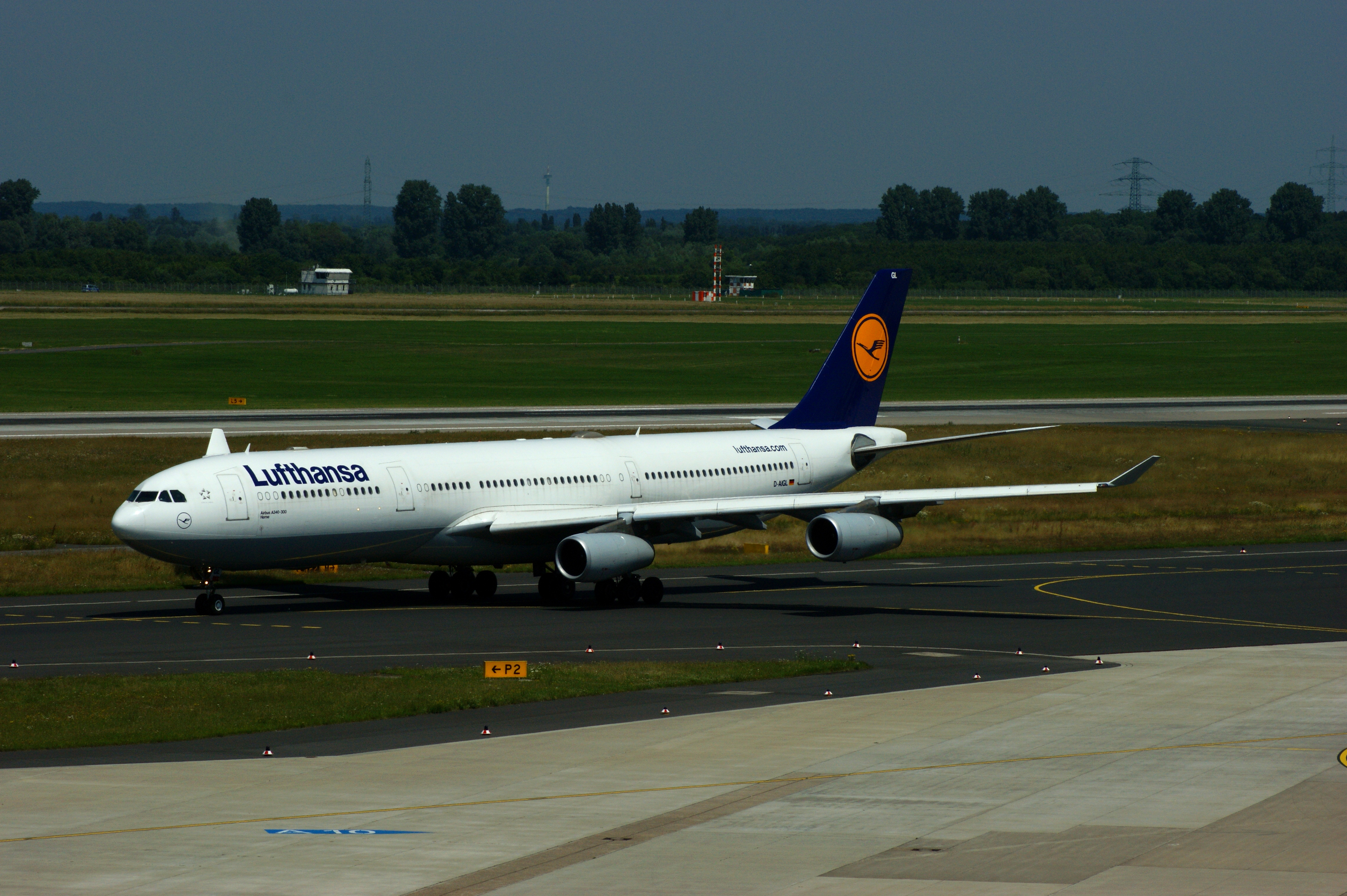 Lufthansa Airbus A340-313X "Herne" taxiing in Duesseldorf (EDDL/DUS) for its depature to Frankfurt (ferry flight). The registration of this Airbus is D-AIGL. It arrives from Newark (KEWR) early in the morning with the flight number LH409.